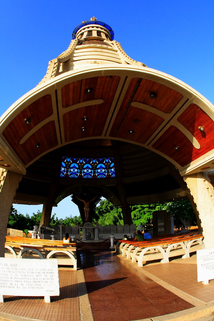 Entrance of the Basilica Crhist of Hose, Anzoategui, Venezuela.